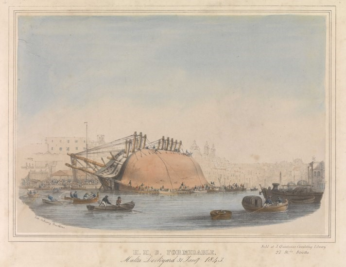 HMS 'Formidable' careened in Malta Dockyard, 31 January 1843. The second rate warship ‘Formidable’ is shown being careened at the dockyard in the Grand Harbour at Malta. With the ship’s port underside exposed, dozens of men attend her from floating platforms and nearby boats, some depicted actively cleaning her hull. Several other rowing boats circulate in the still waters of the foreground, whilst behind at dockside activity centres on the base of the halyard holding ‘Formidable’ in place. Behind, more faintly drawn in a suggestion of aerial perspective, are the buildings of Birgu, with St. Lawrence's Church given particular prominence, framed neatly by the stern end of the ship.